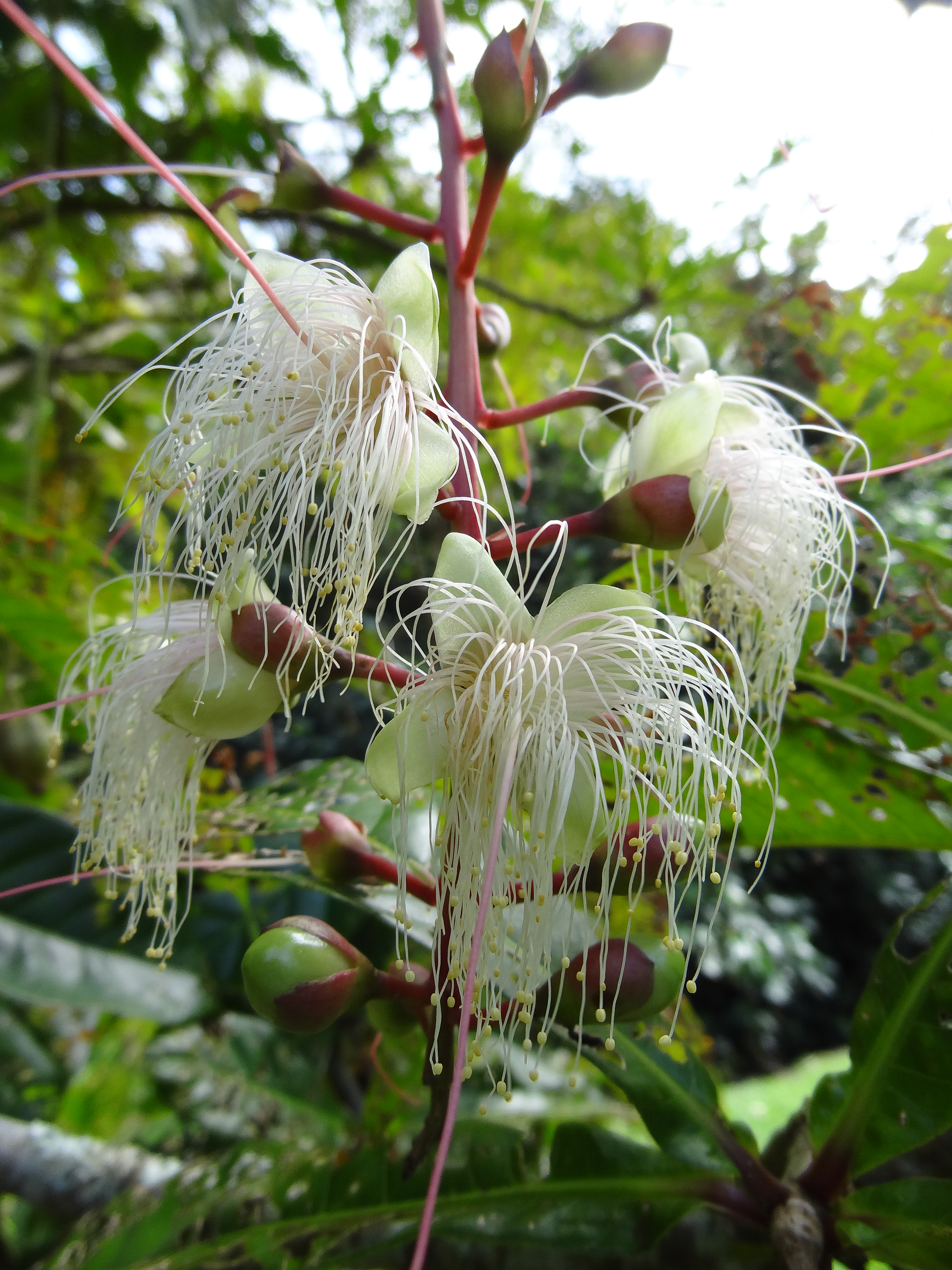 Flowers of the fish-kill tree, Barringtonia racemosa